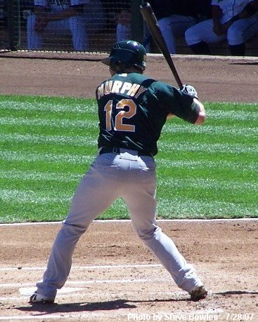 Donnie Murphy bats for the Oakland Athletics in Seattle - July 2007 07:18, 27 September 2007 . . Gimpy56 . . 367×459 (62 KB)